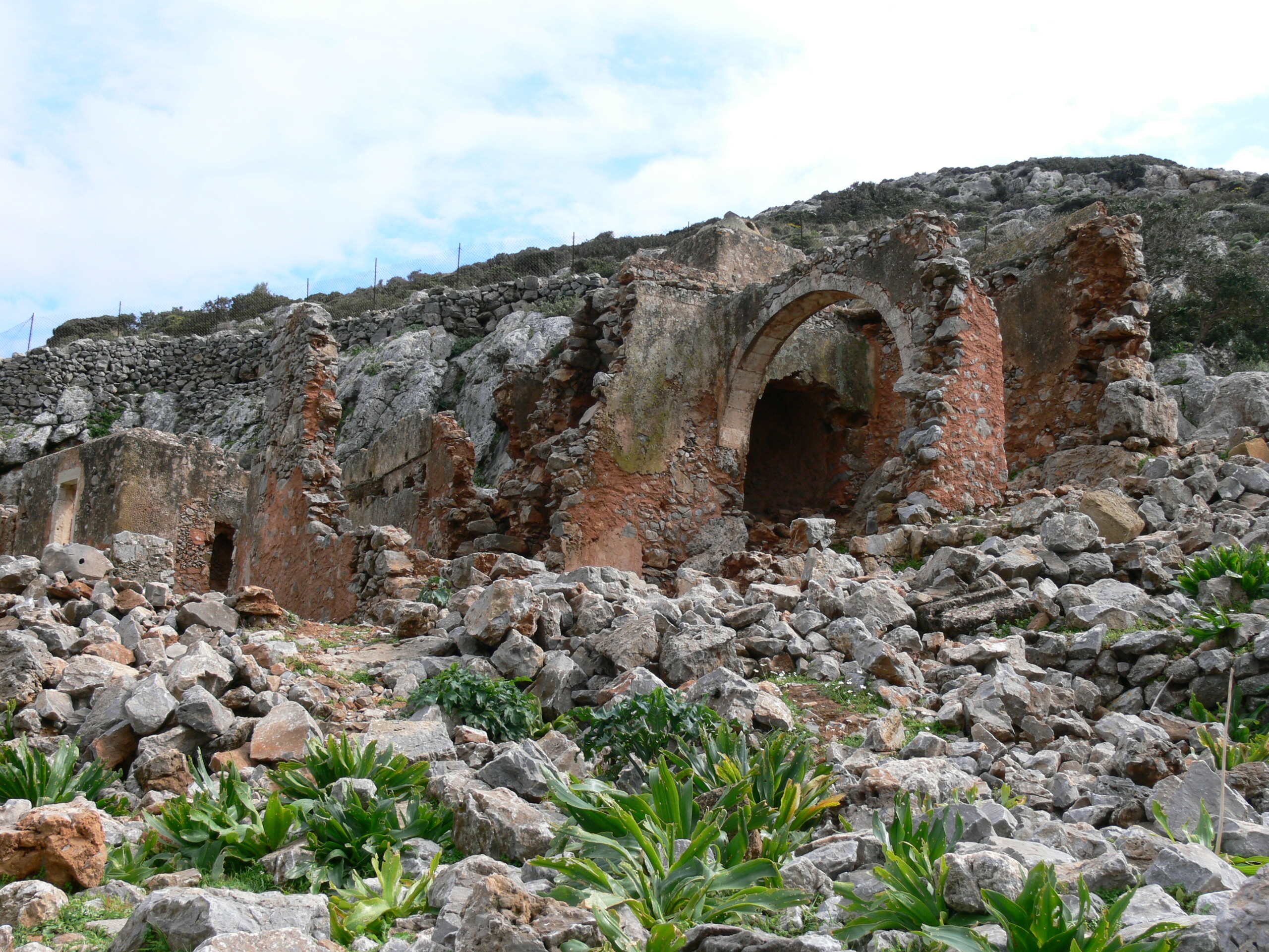 Arkoudiotissa cave, Akrotiri ( Crete ). Ruins in front of the cave.